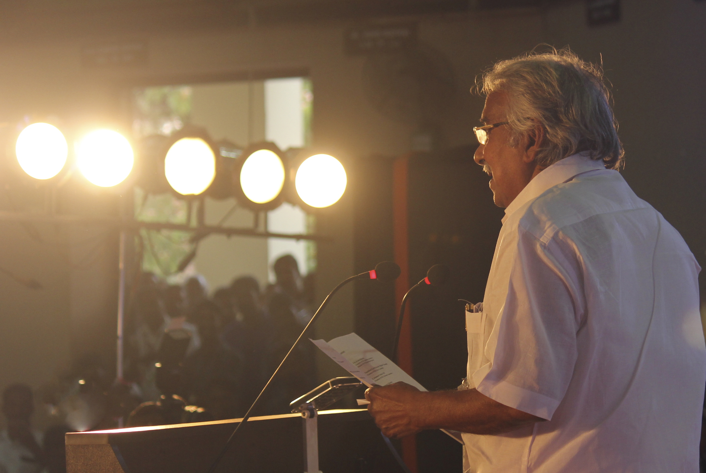 oomman chandy cheif minister of kerala september 2015